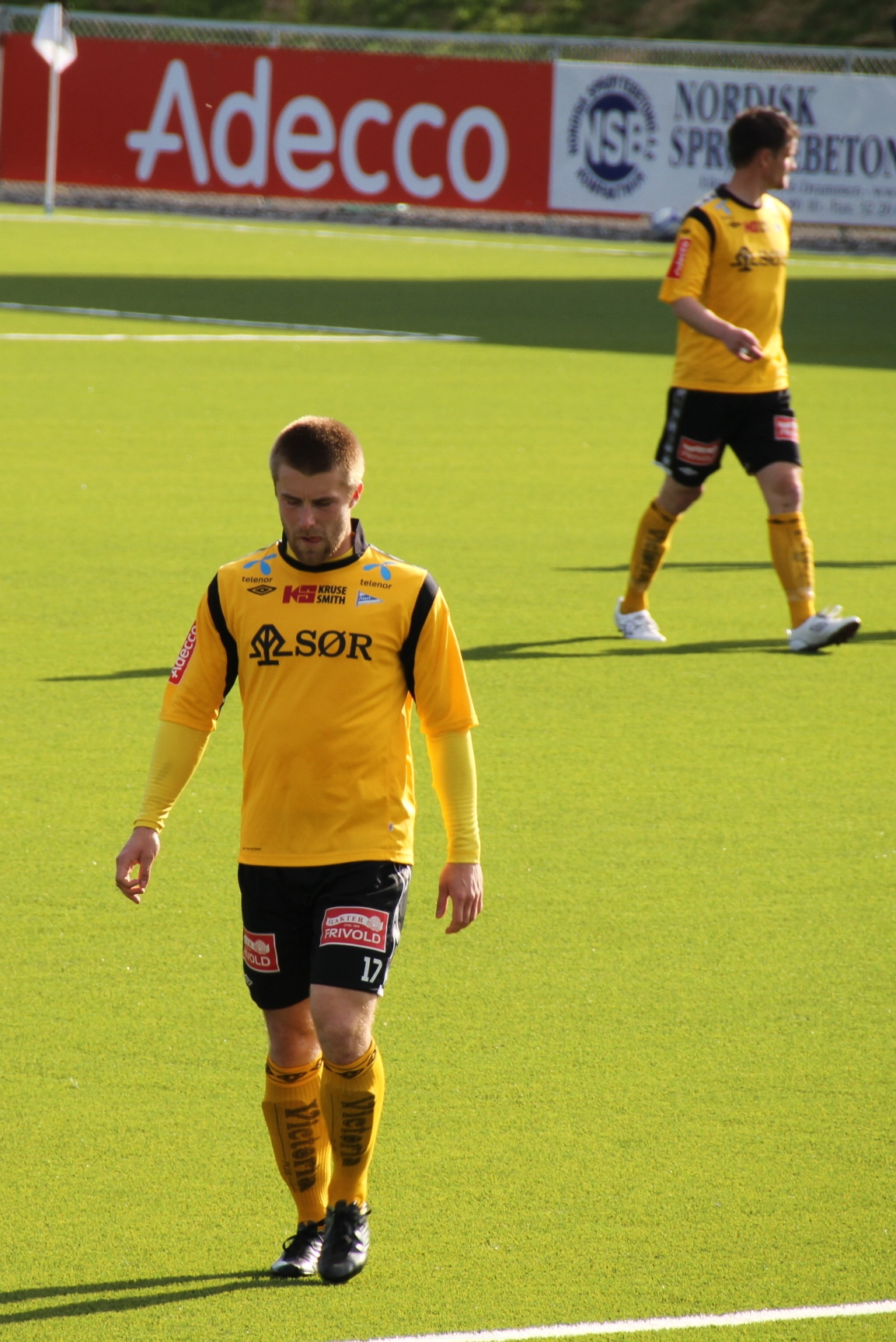 IK Start (Norway) players in match against Mjøndalen. May 20, 2012.